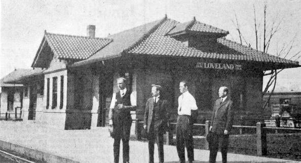 Photograph of Railroad Station in Loveland, Ohio, that appeared in Baltimore & Ohio Employes Magazine, August 1914, Vol. 02 No. 11, Page 108